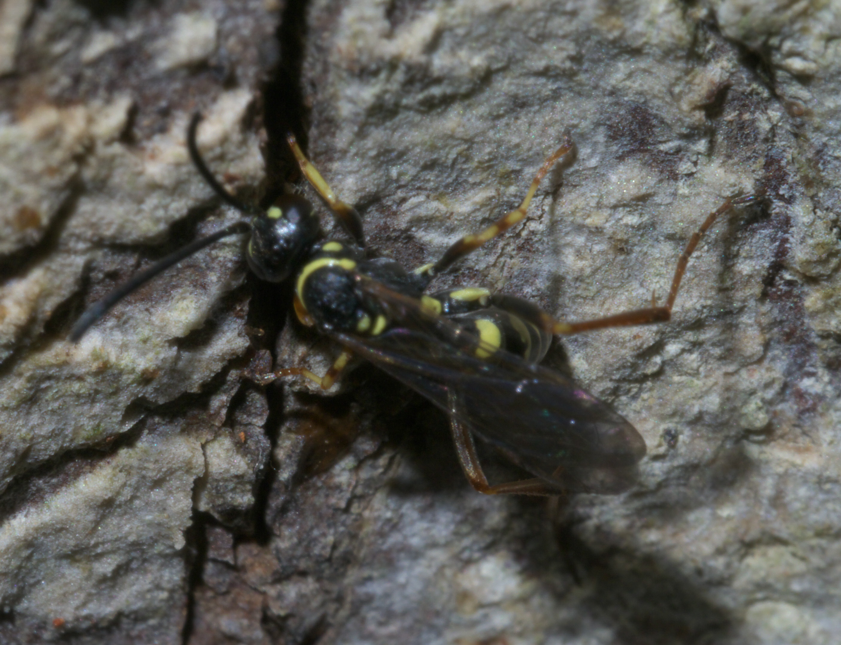 Ceropales maculata, Family: Spider Wasps, ID Confidence: 98